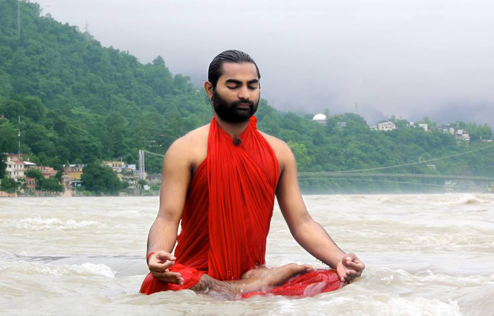 Shwaasaguru Sri Vachananand Swamiji at Ganges